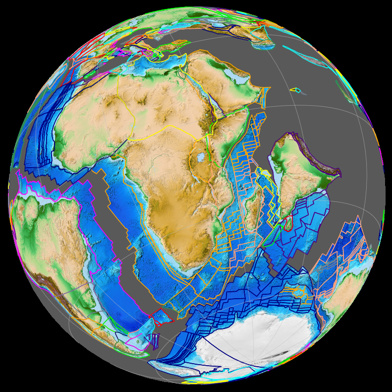 Opening of western Indian Ocean at 70 Ma: first oceanic crust between India and Madagascar.